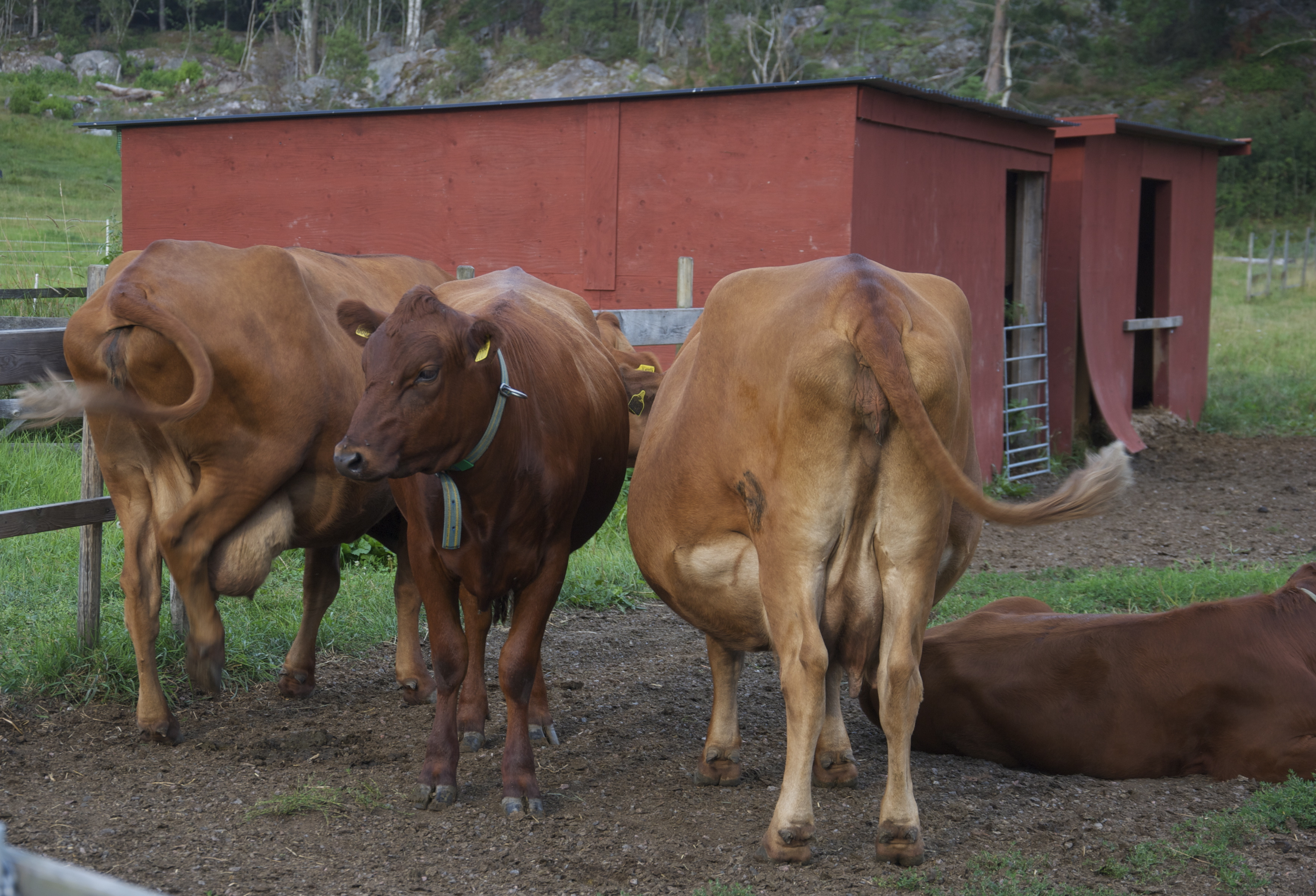 Rödkulla a traditional swedish breed no longer used in commercial production.